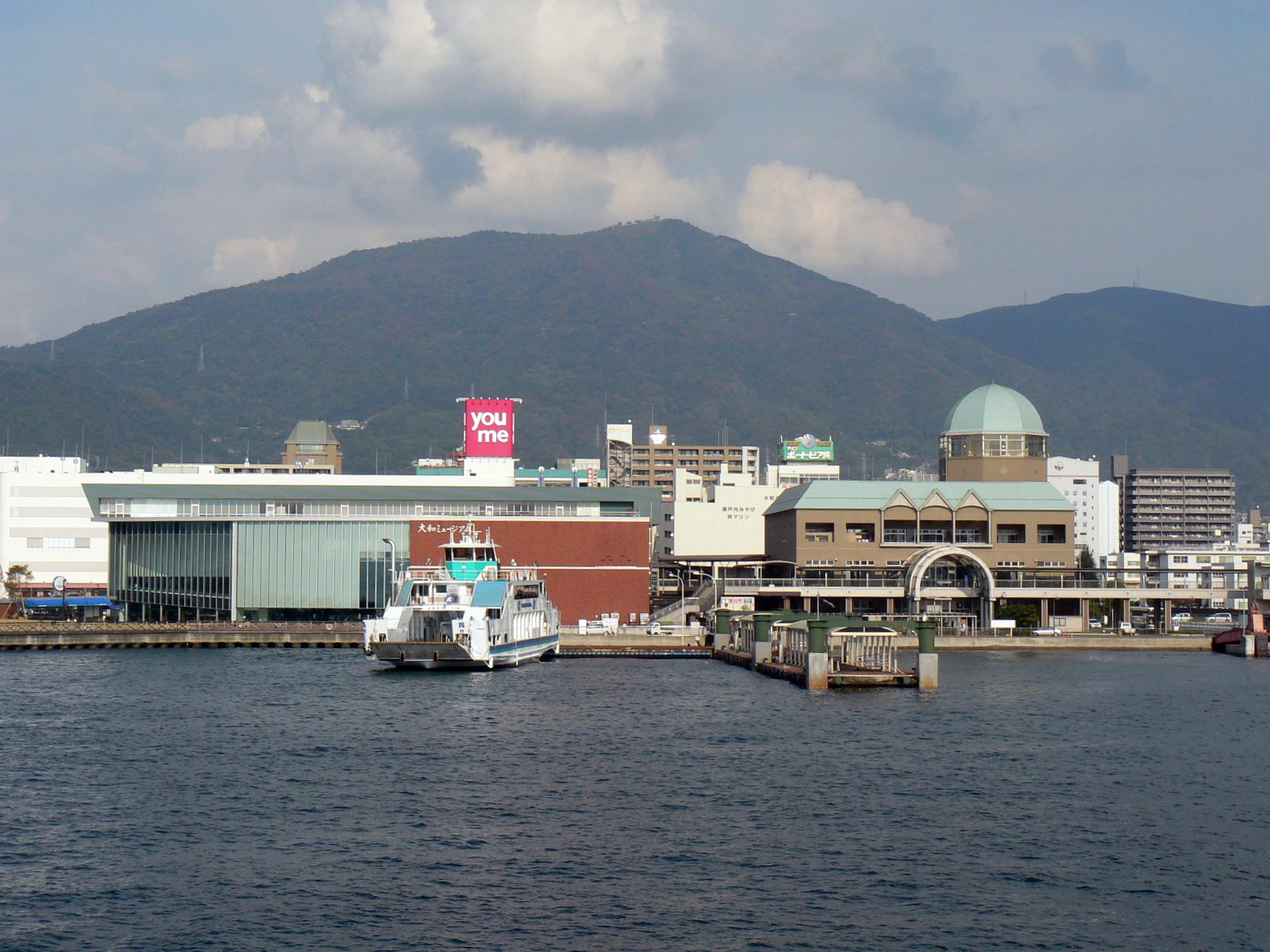 Kure Central Pier Terminal in the Port of Kure.